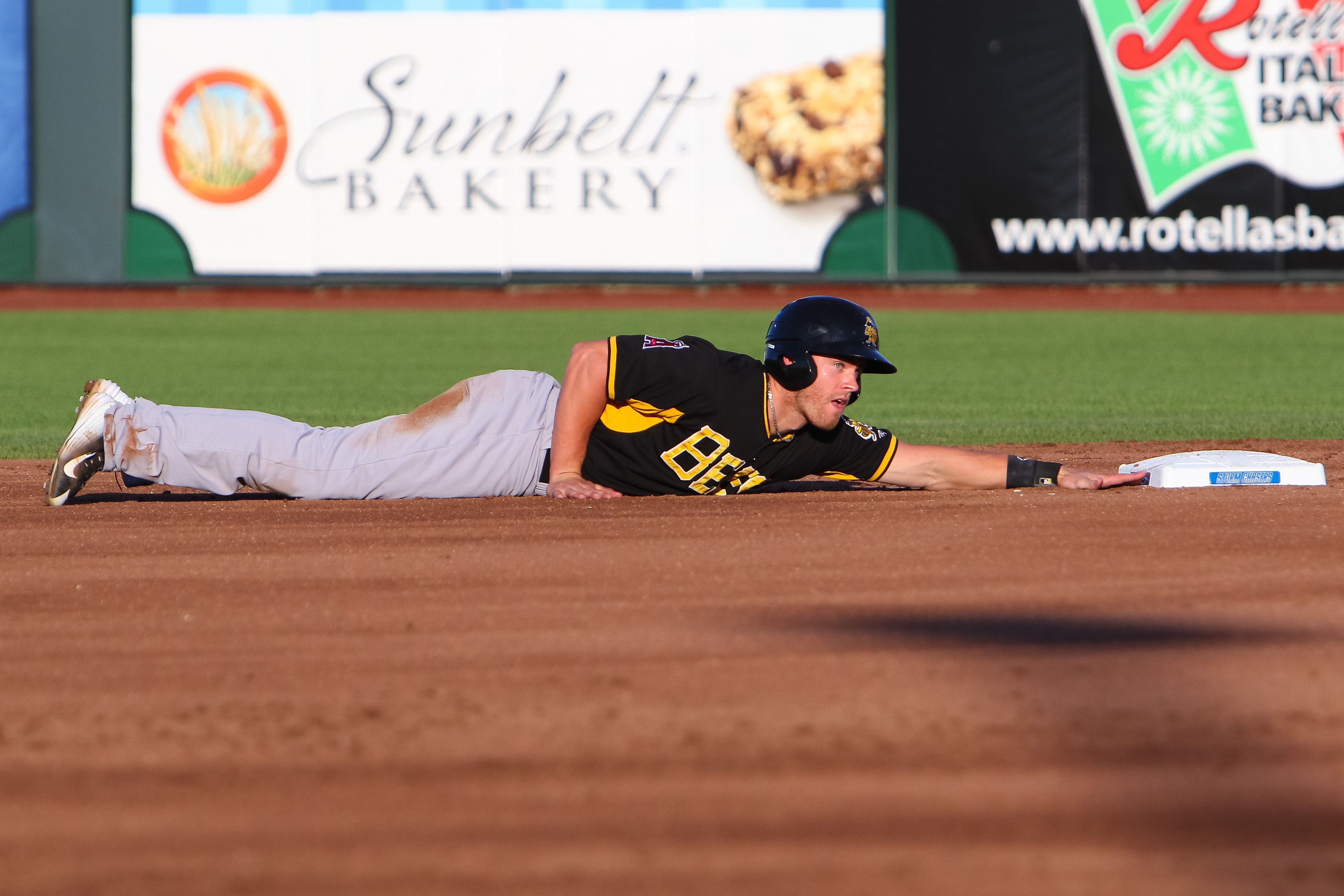 Cal Towey of the Salt Lake Bees slides into second base during a 2016 game at Werner Park in Nebraska.